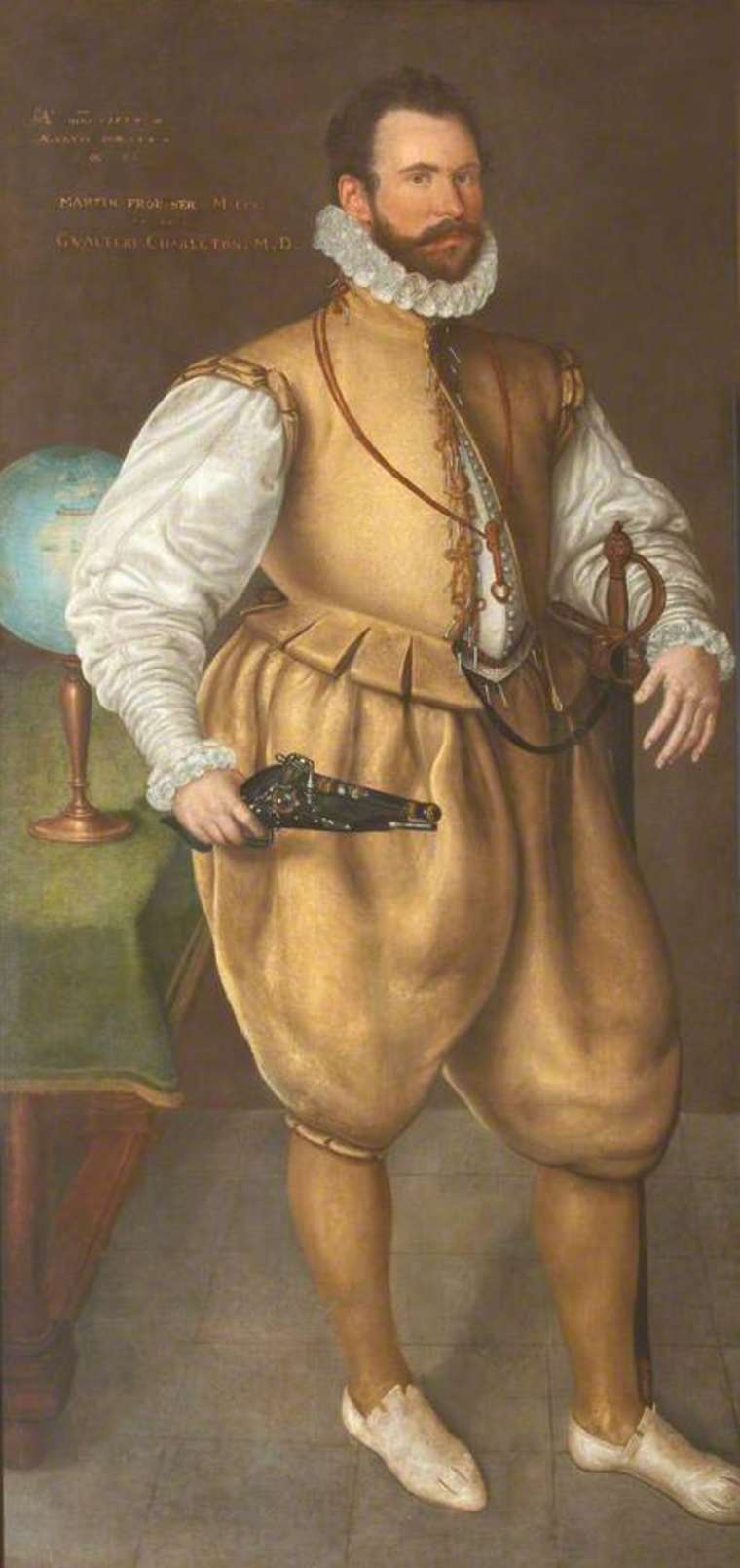 Portrait of Sir Martin Frobisher. Courtesy of the collections of the University of Oxford.